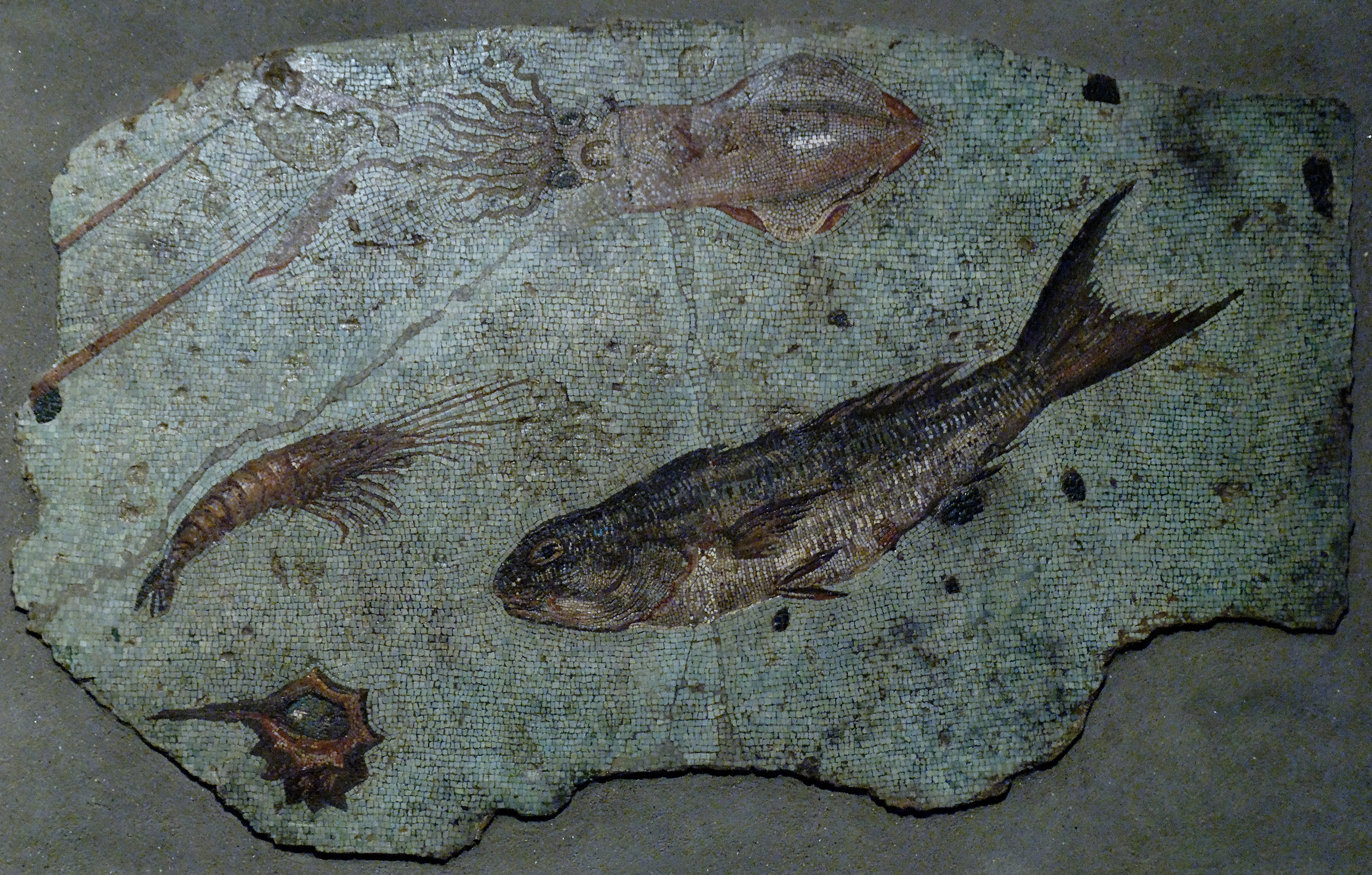 Seascape, fragment of a mosaic which once decorated a pool. Roman artwork, late 2nd–early 1st century BC. From Via S. Lorenzo in Panisperna, Rome, 1888.